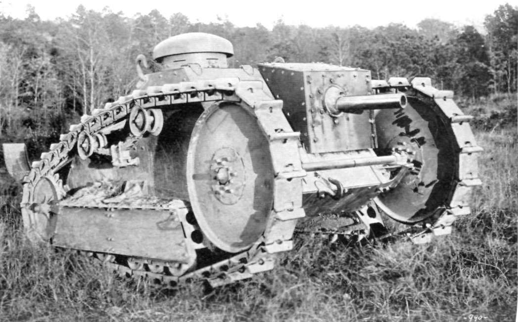 3-ton tank.